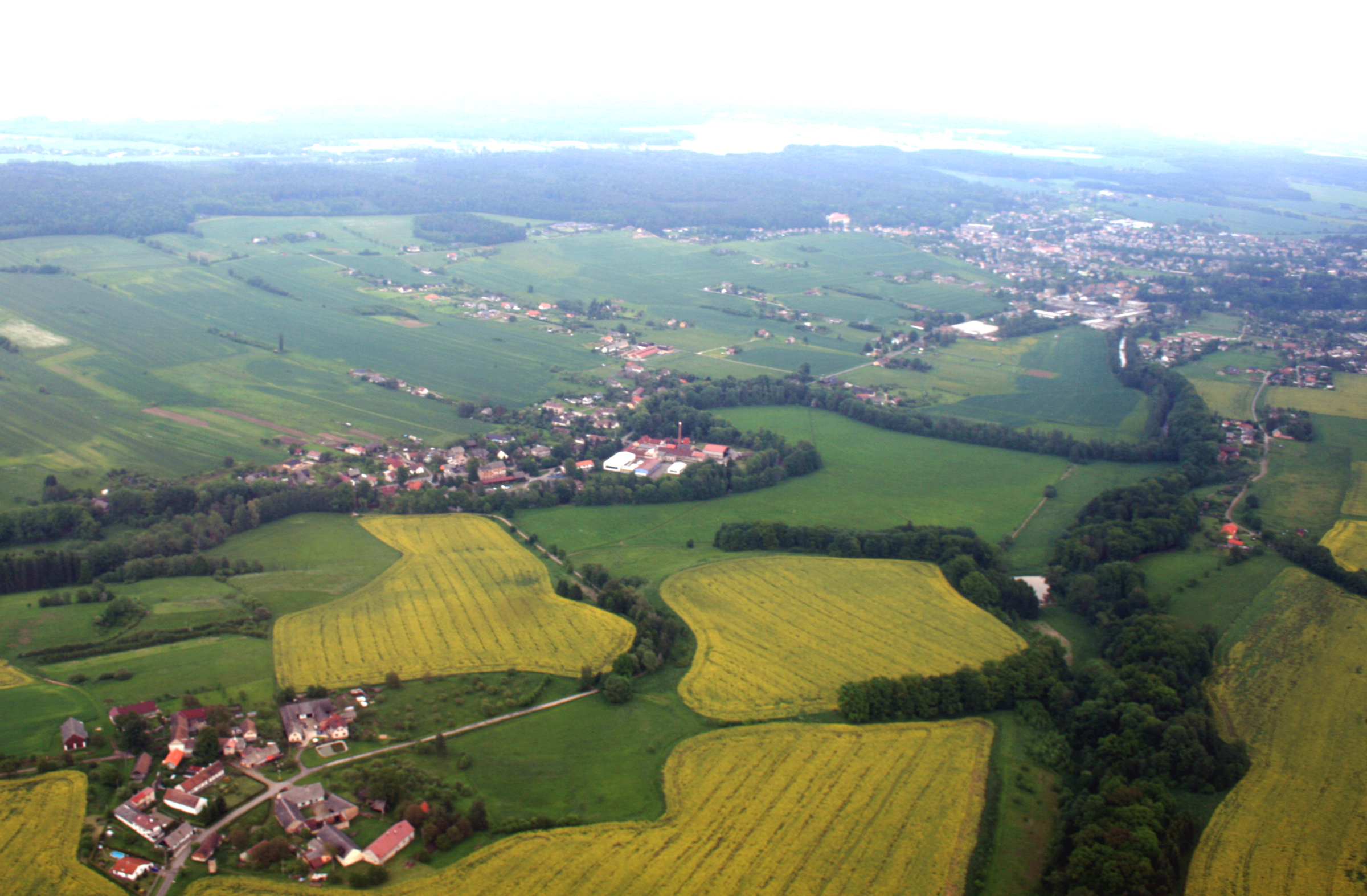 Verdek, part of town Dvůr Králové nad Labem from air, eastern Bohemia, Czech Republic